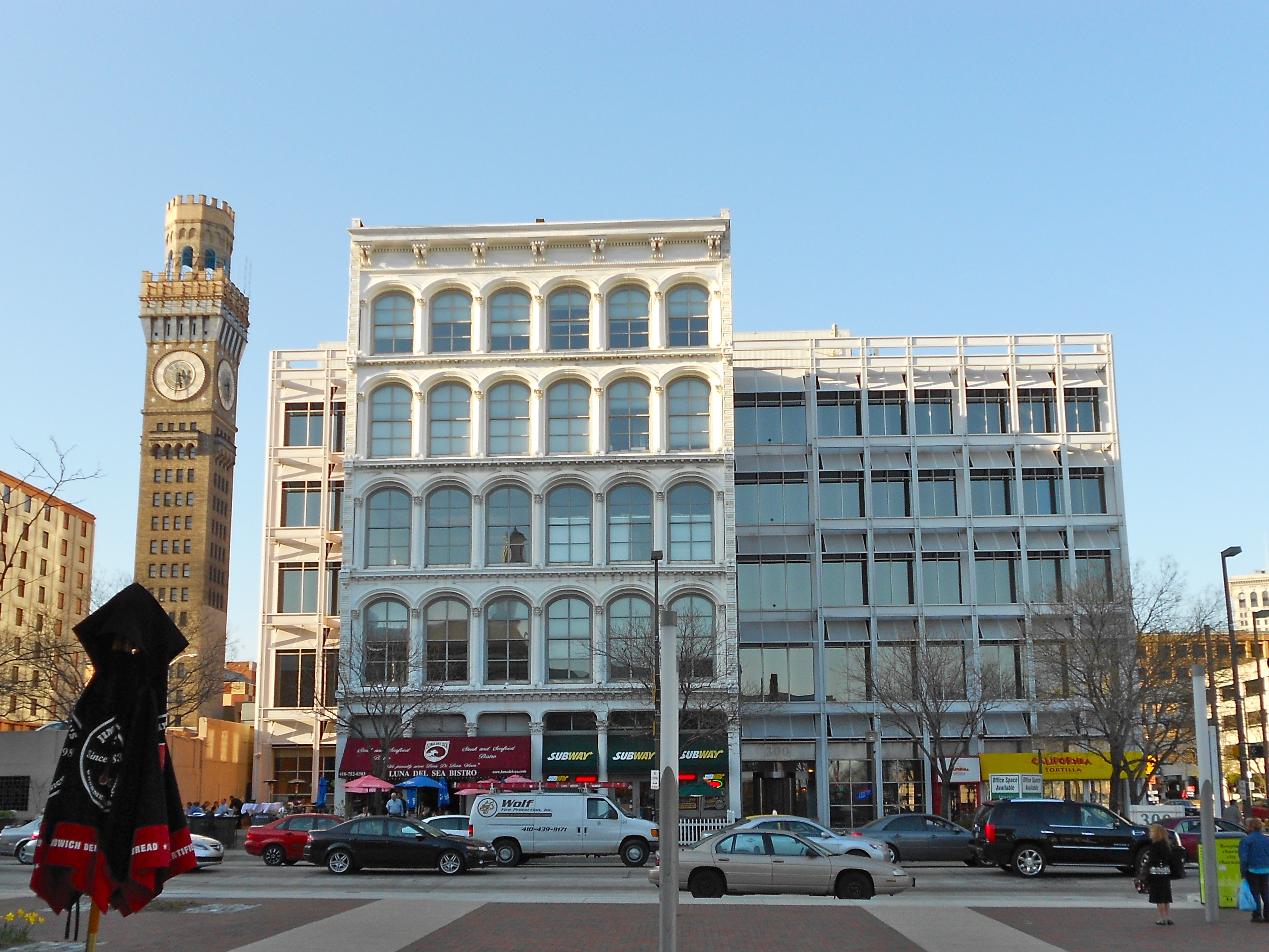 Wilkens-Robins Building (center) on the NRHP since December 3, 1980. At 308-312 W. Pratt St. in south Baltimore near the Bromo-Seltzer Tower.